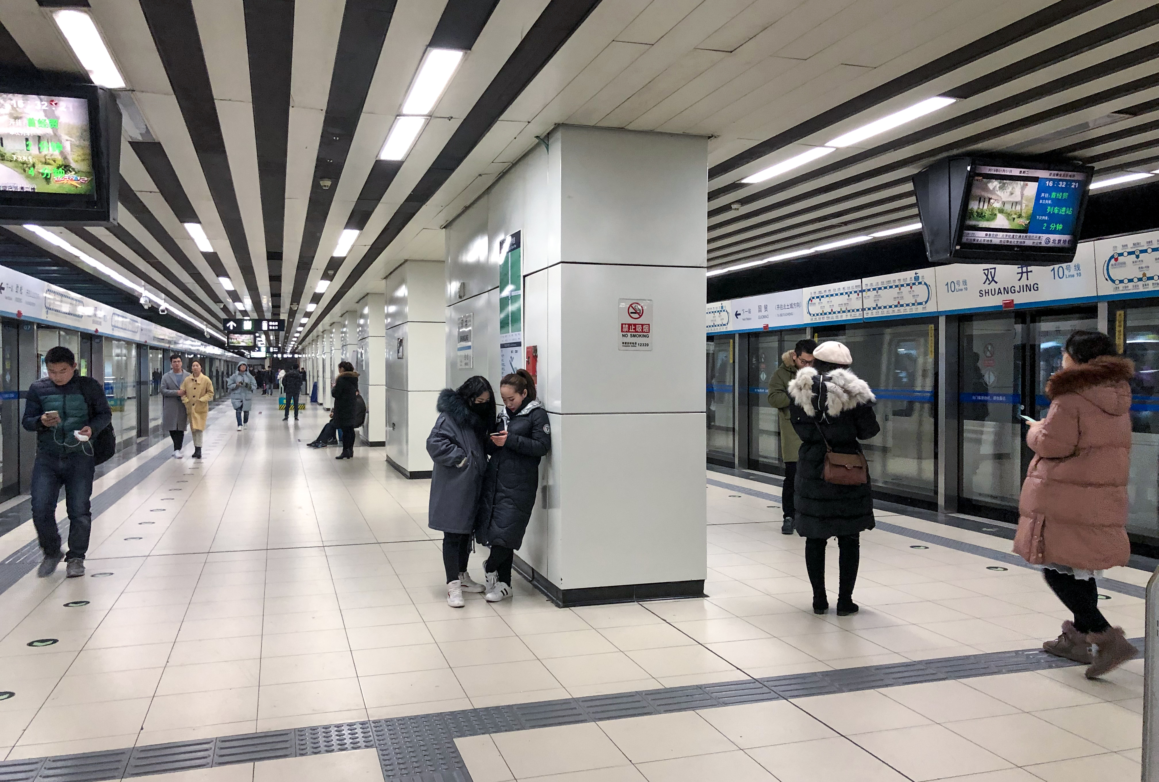 Too narrow to handle the flow from Line 7.